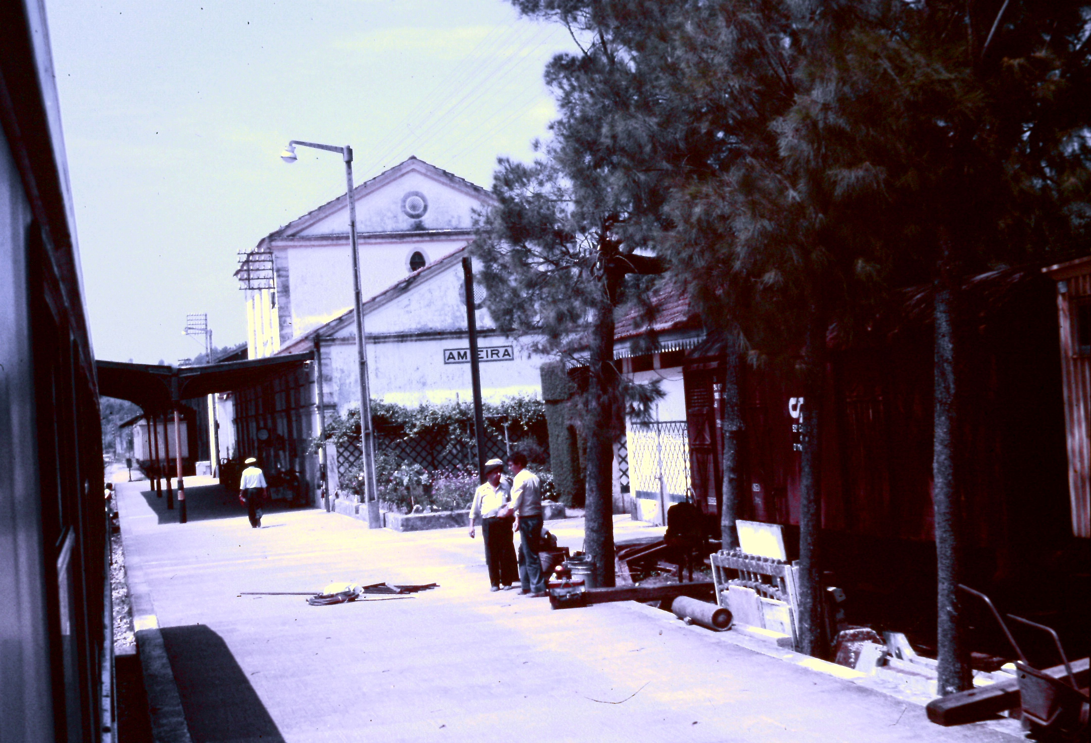 Amieira train station at Oeste railway line; Portugal